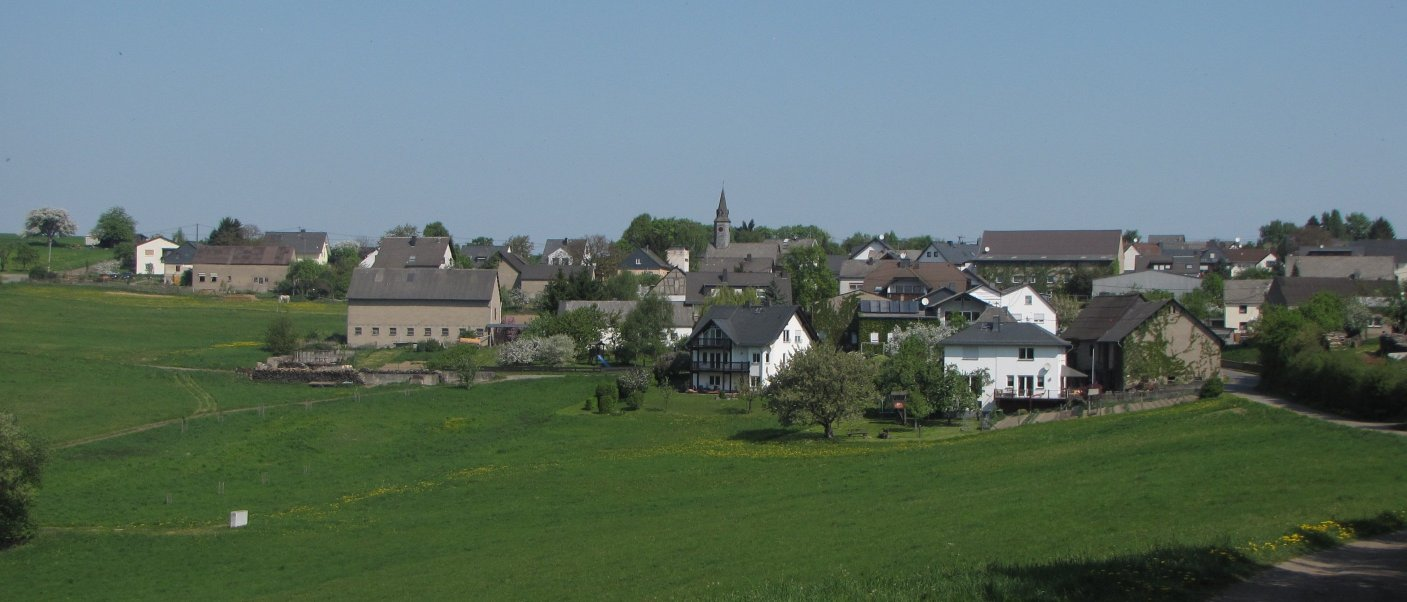 Lykershausen